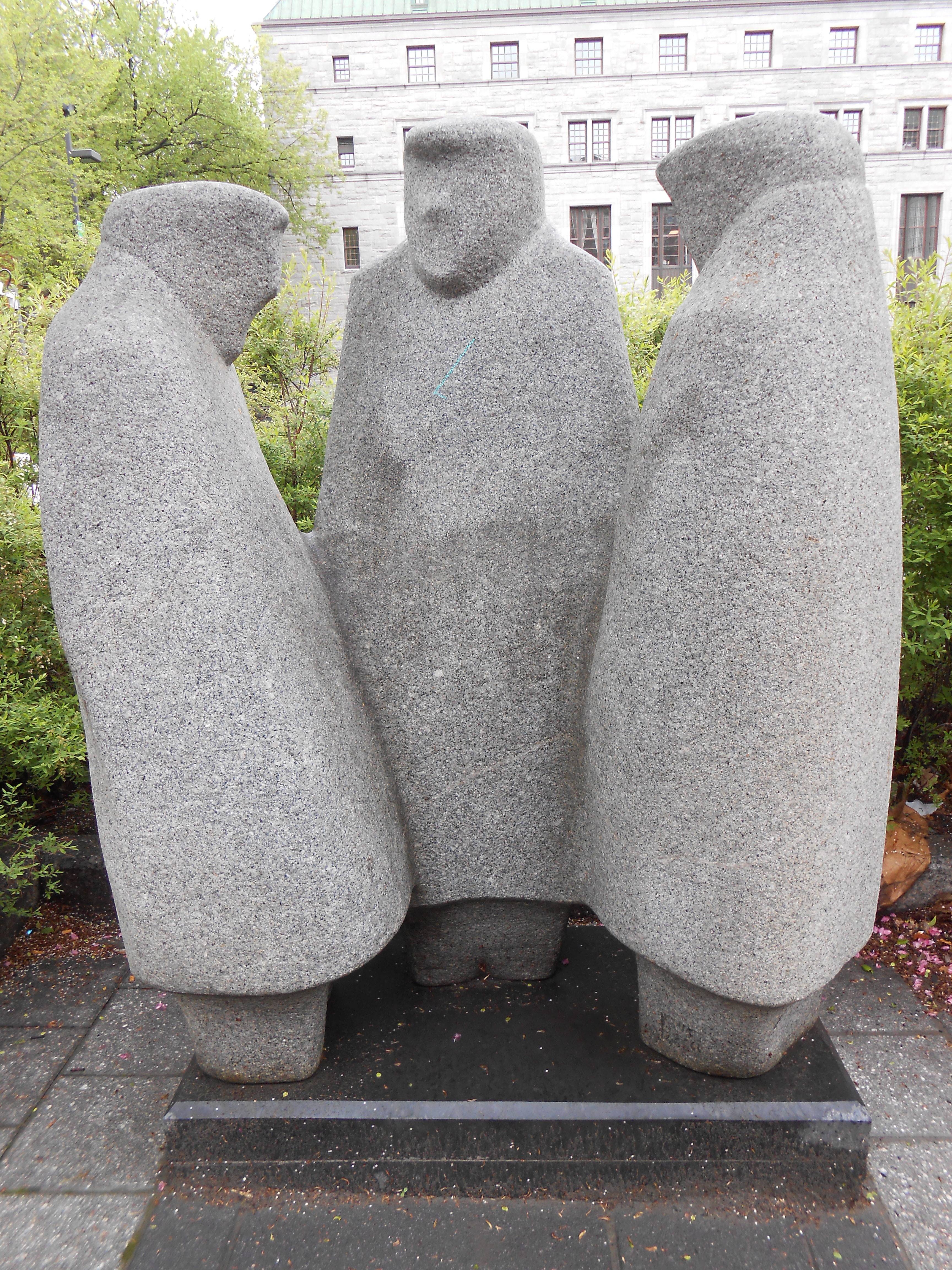 Discussion is a sculpture in granite made by Lewis Pagé located on Grande Allée, Quebec City.